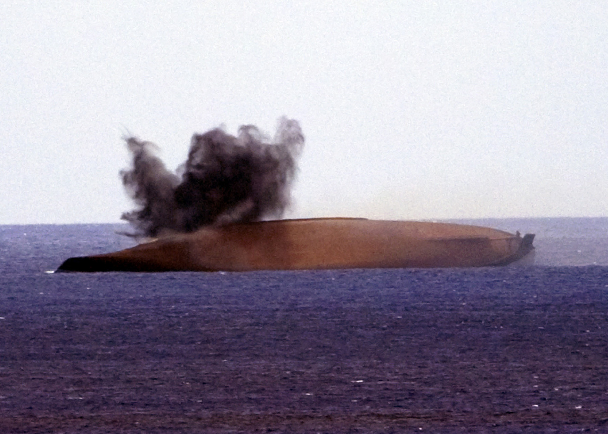 PACIFIC OCEAN (Sept. 20, 2010) The Yellowstone-class destroyer tender Ex-USS Acadia (AD 42) lies on her starboard side off the coast of Guam as a guided bomb detonates against the hull during a day-long bombardment of ordnance delivered from Naval aircraft and ships during exercise Valiant Shield. (U.S. Navy photo by Mass Communication Specialist 3rd Class Adam K. Thomas/Released)